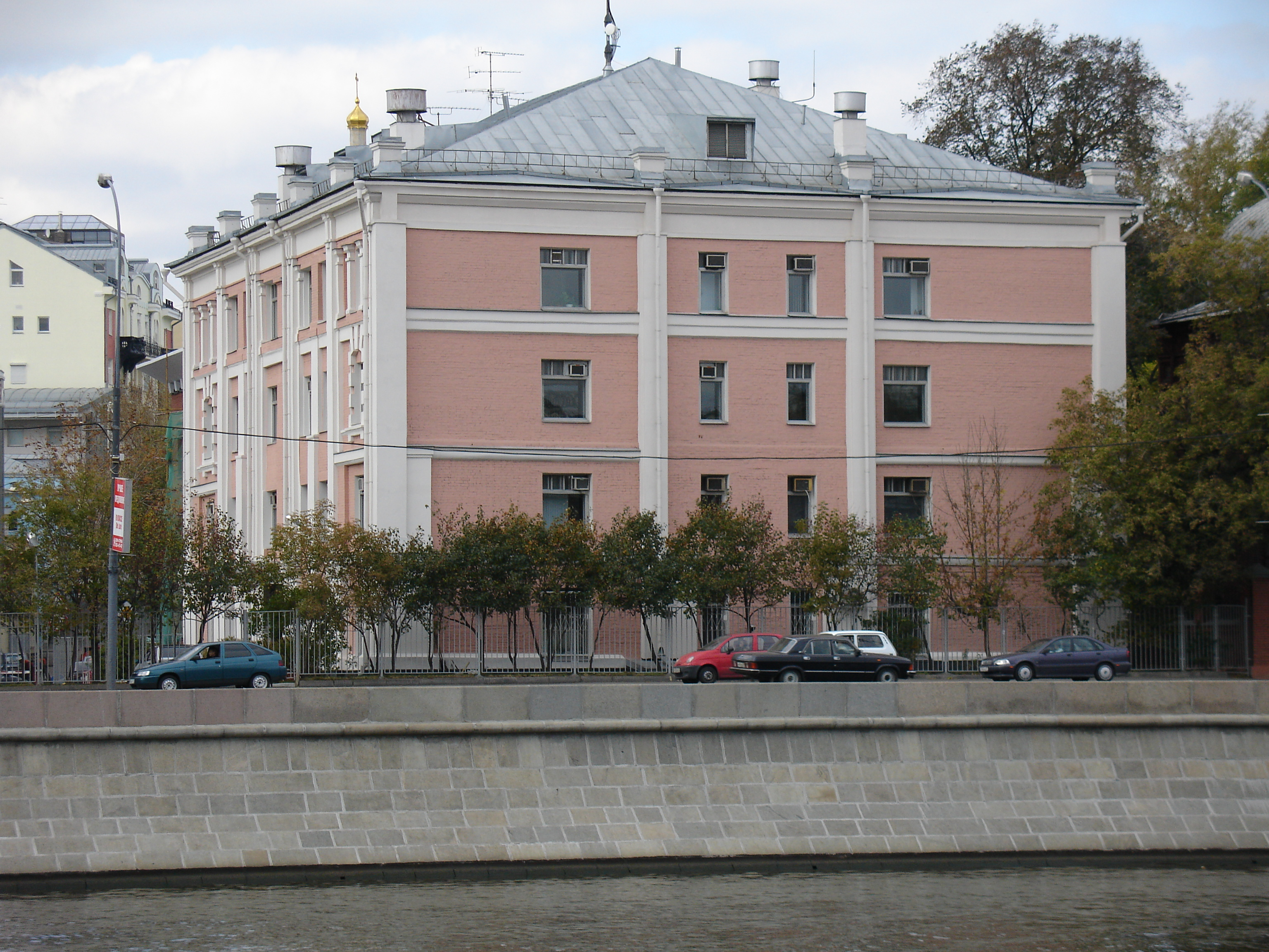 Prechistenskaya Embankment 23 / Kursovoy Lane 9 housing the Embassy of South Ossetia